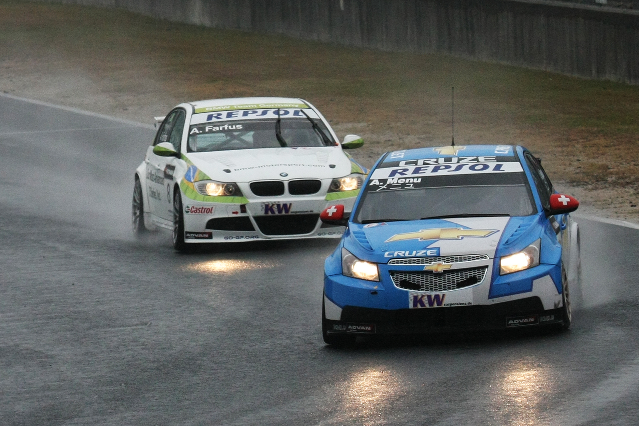 World Touring Car Championship 2009 Race of Japan: Alain Menu (Chevrolet) leads Augusto Farfus (BMW Team Germany) at Race 1.